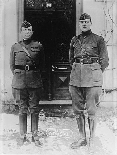 Captain Hamilton Fish III (right) and general Mark L. Hersey (left)